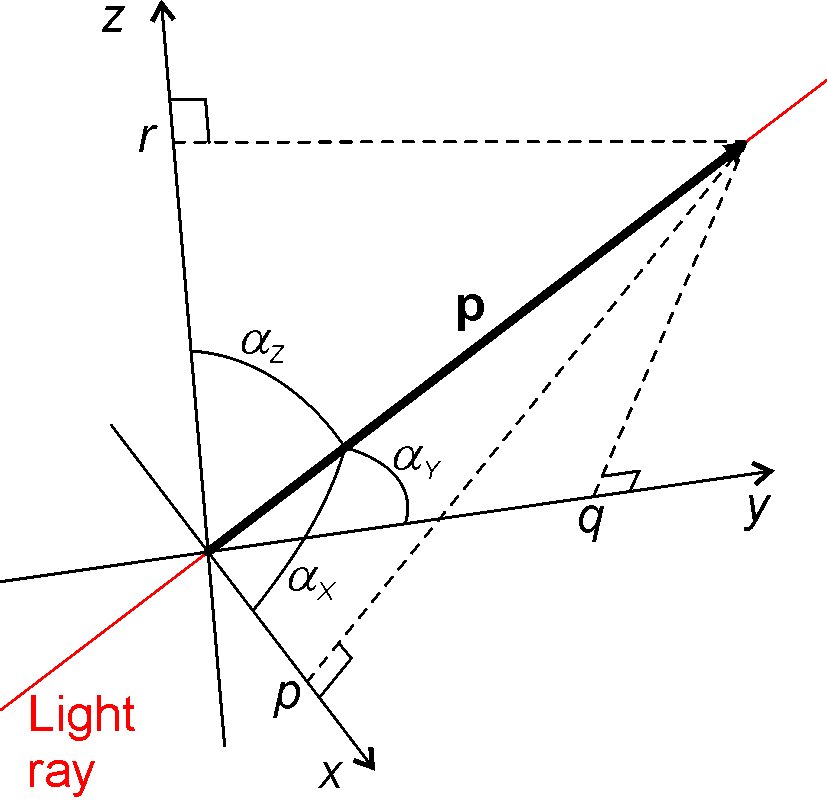 A figure illustrating etendue and the geometry of the optical momentum.